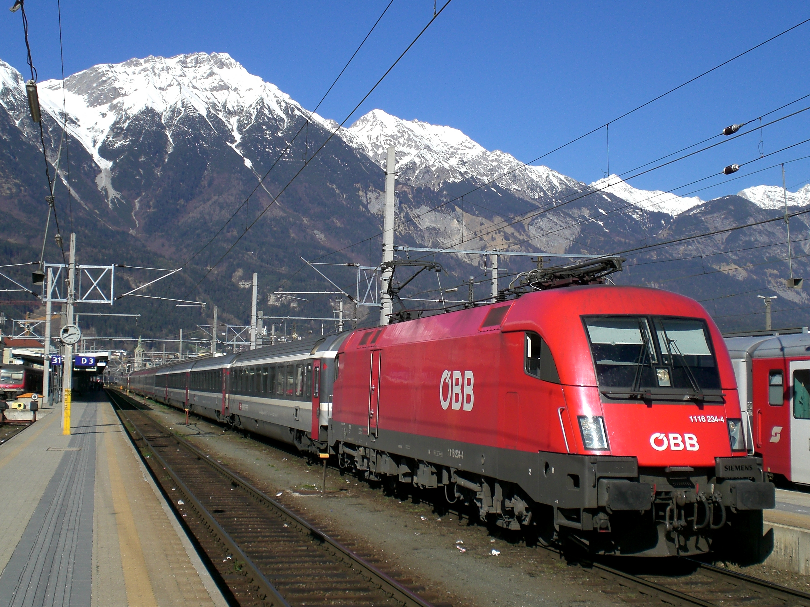 ÖBB 1116 234-4 with SBB EC coaches as ÖBB EC 162 Transalpin on its way to Basel SBB, in Innsbruck Hbf (main station).